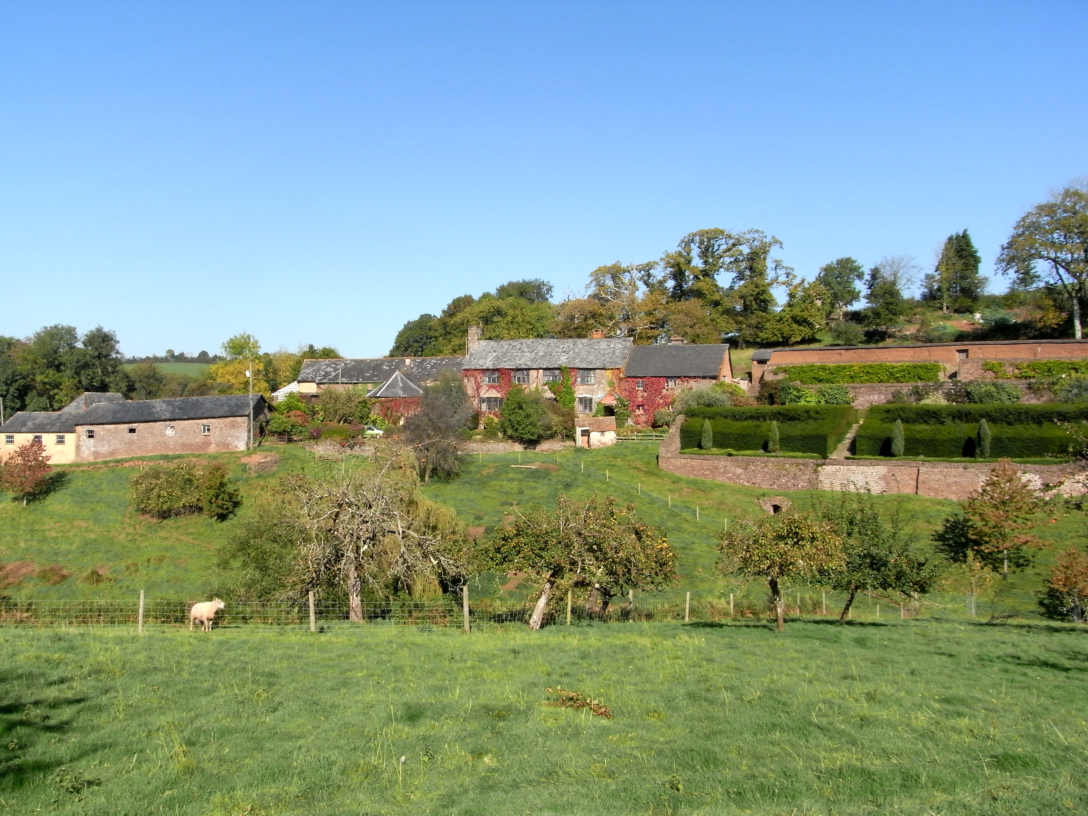 Upcott Barton in the parish of Cheriton FitzPaine, Devon, viewed from south